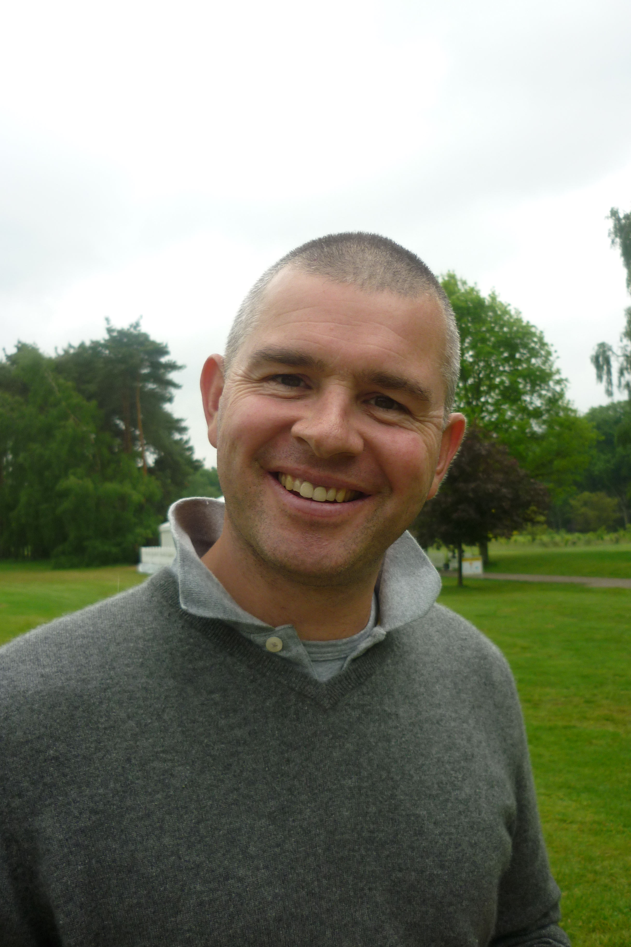 Nicolas Vanhootegem at Telenet Trophy at Rinkven GC